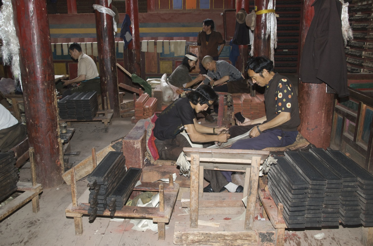 The famous Tibetan typography of Derge (Dege), Sichuan, China. Religious and Medical texts (black and red inks)